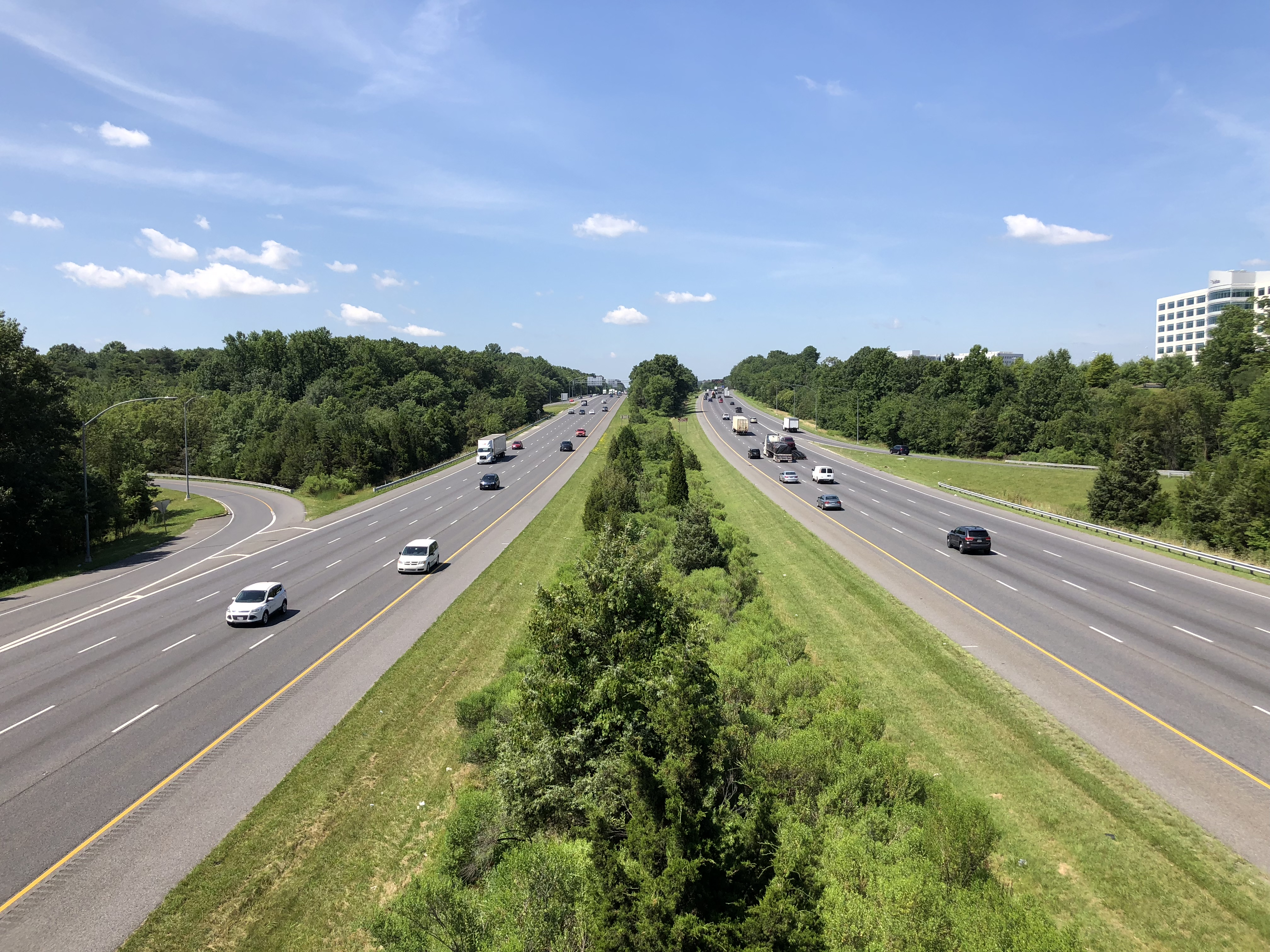 View south along Interstate 95 from the overpass for Maryland State Route 175 (Waterloo Road/Rouse Parkway) in Columbia, Howard County, Maryland